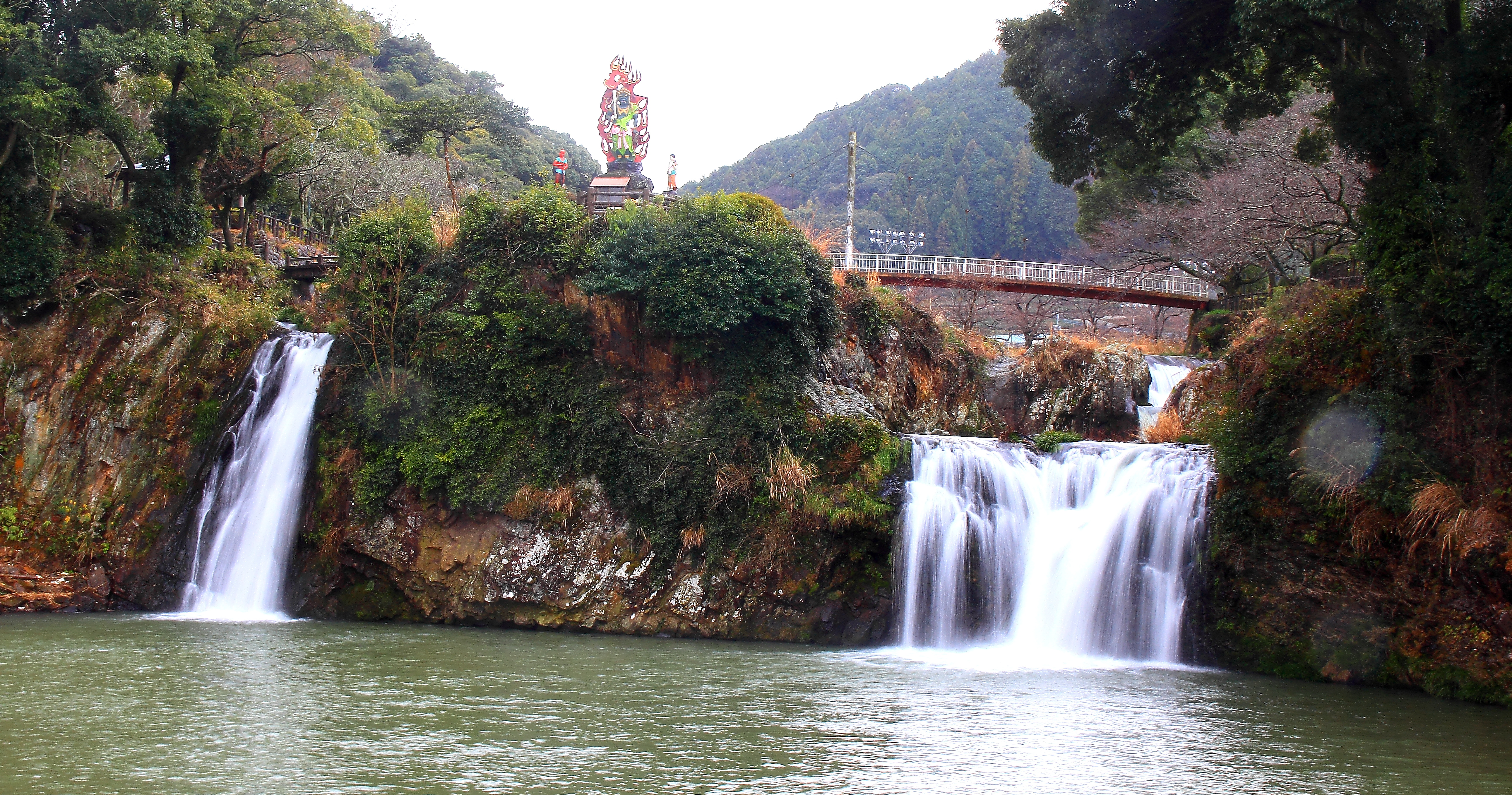 Todoroki Falls (Todoroki-no-taki) in Ureshino, Saga, Japan Canon EOS 60D